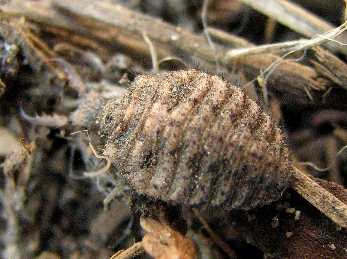 Common Antlion Myrmeleon immaculatus mature nymph, Wheatley, Ontario, Canada